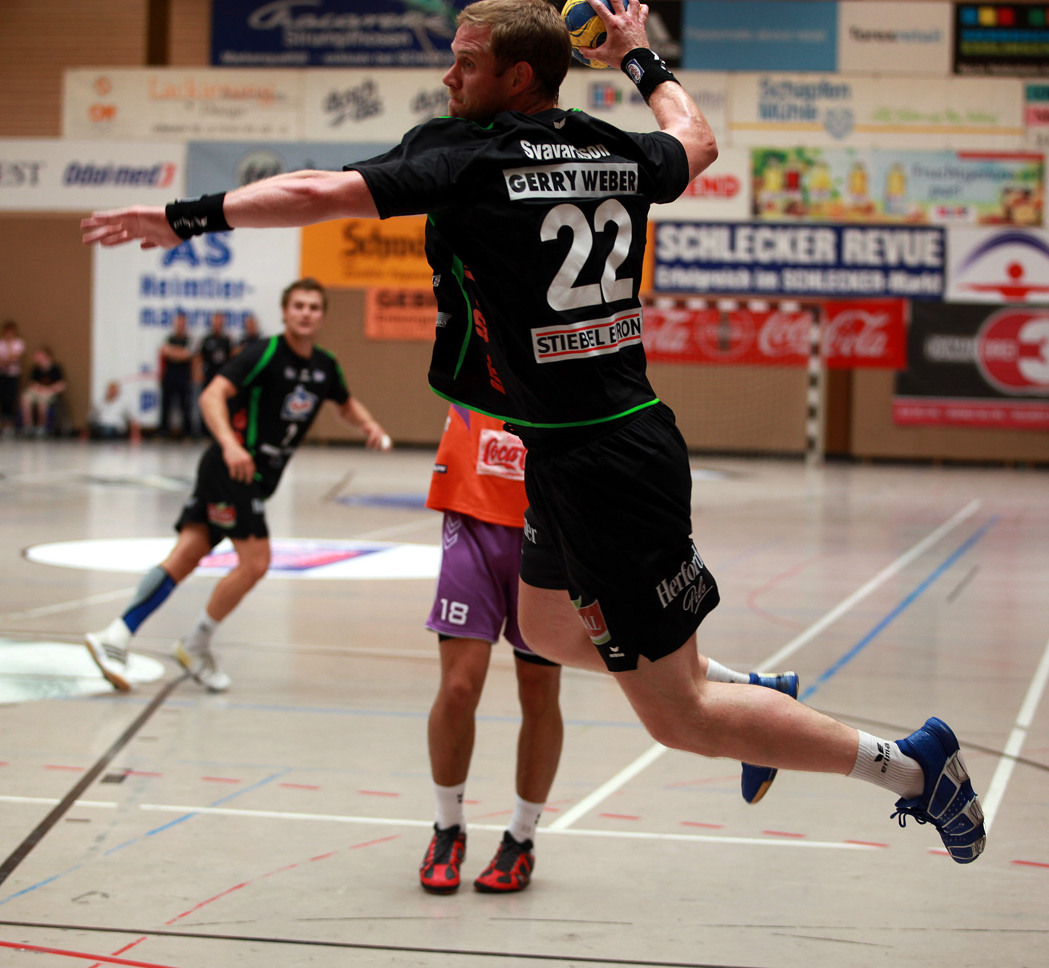 Vignir Svavarsson, Icelandic handball player from TBV Lemgo during the Schlecker Cup 2009 in Ehingen (Germany)